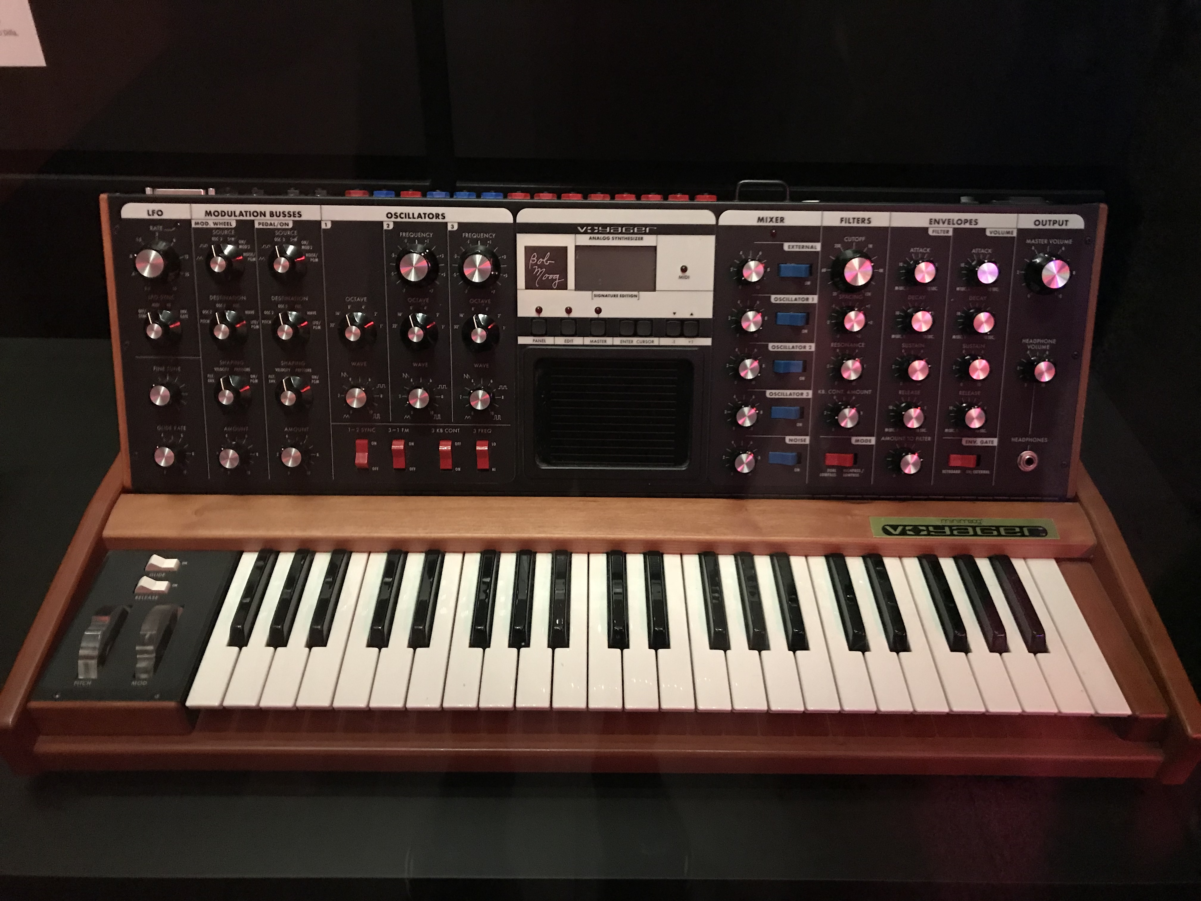 Moog Voyager, as owned by J Dilla